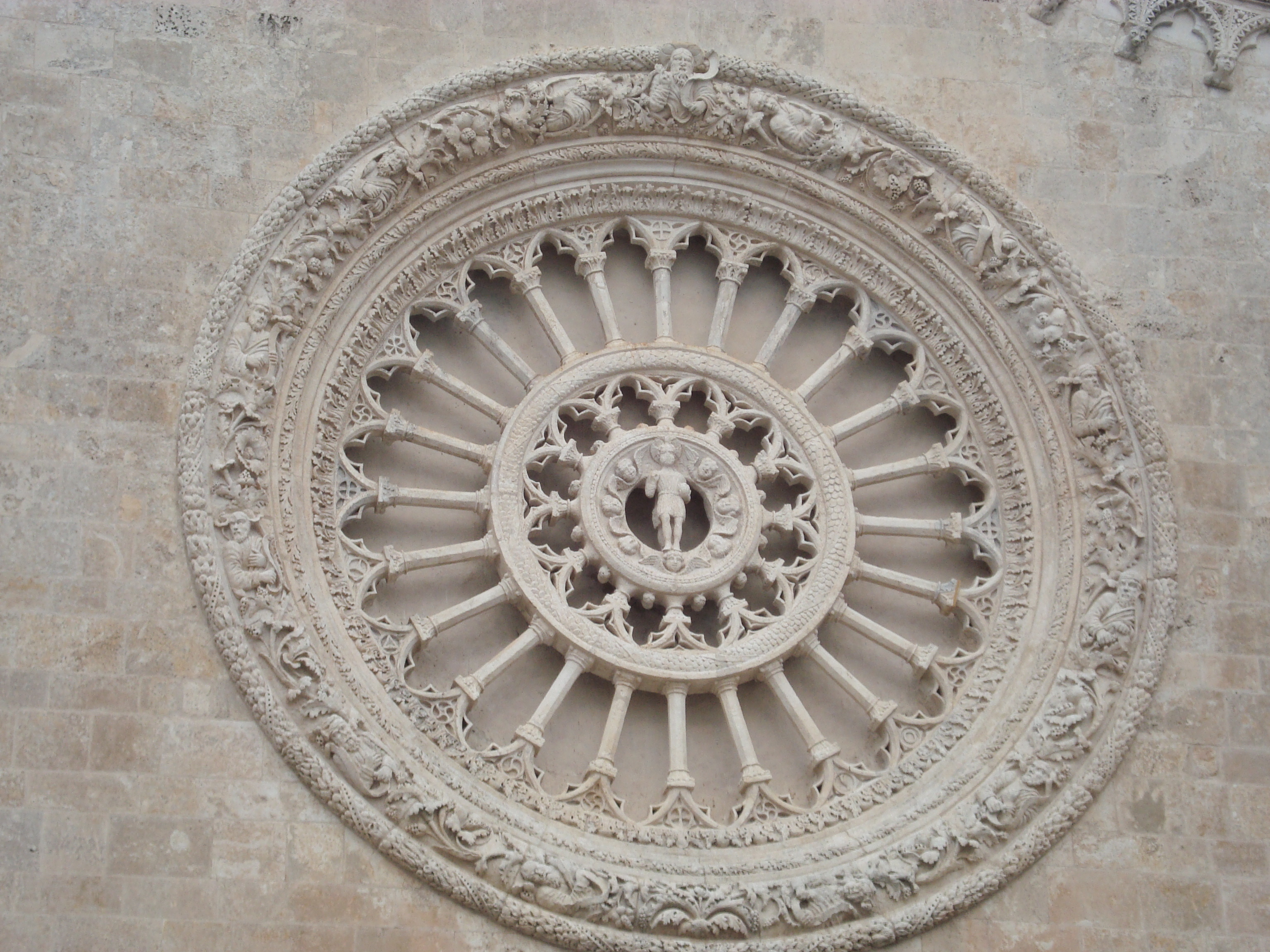 The rosace of the facade of the Ostuni cathedral